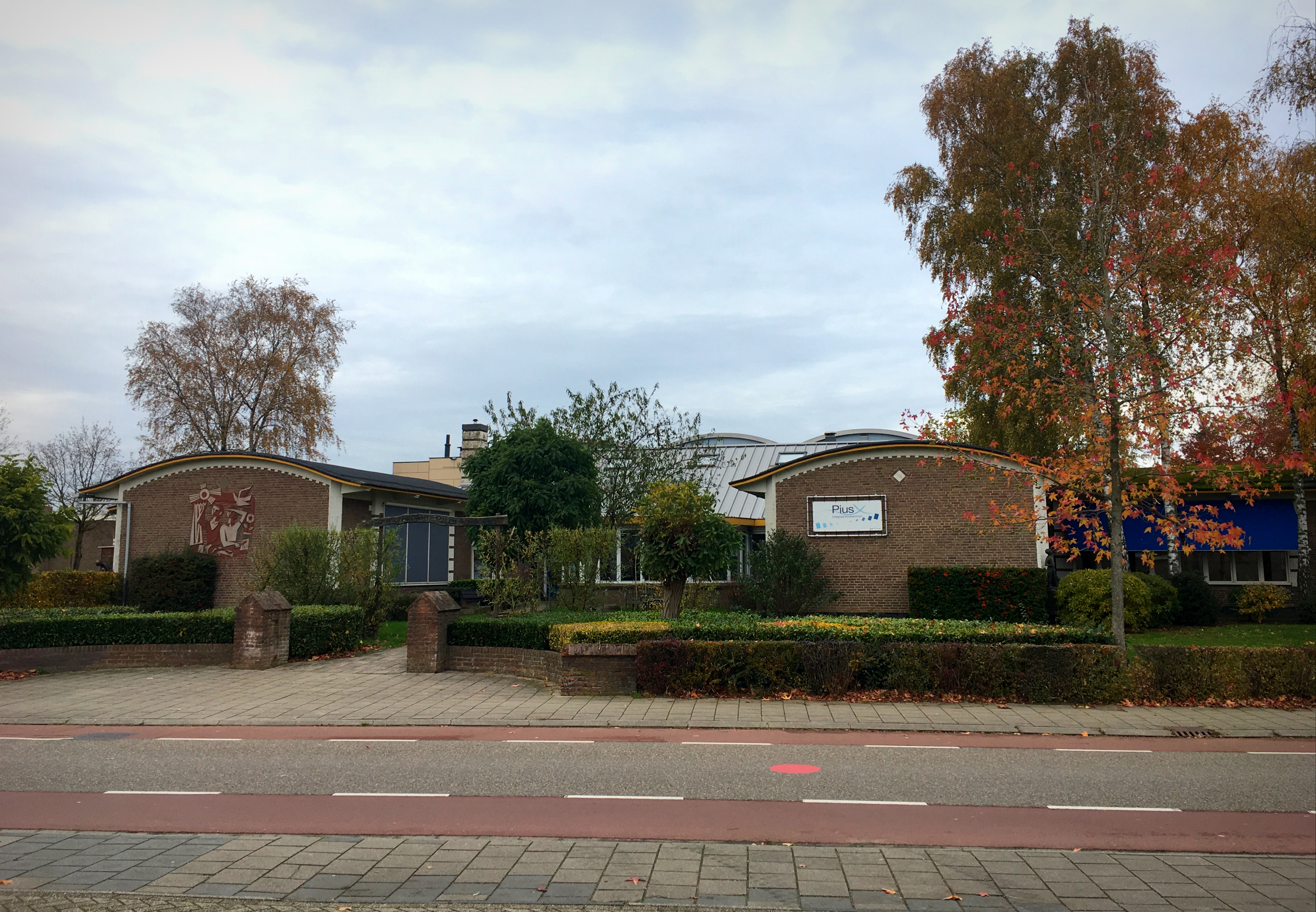 Primary School Pius X, Bemmell, Lingewaard